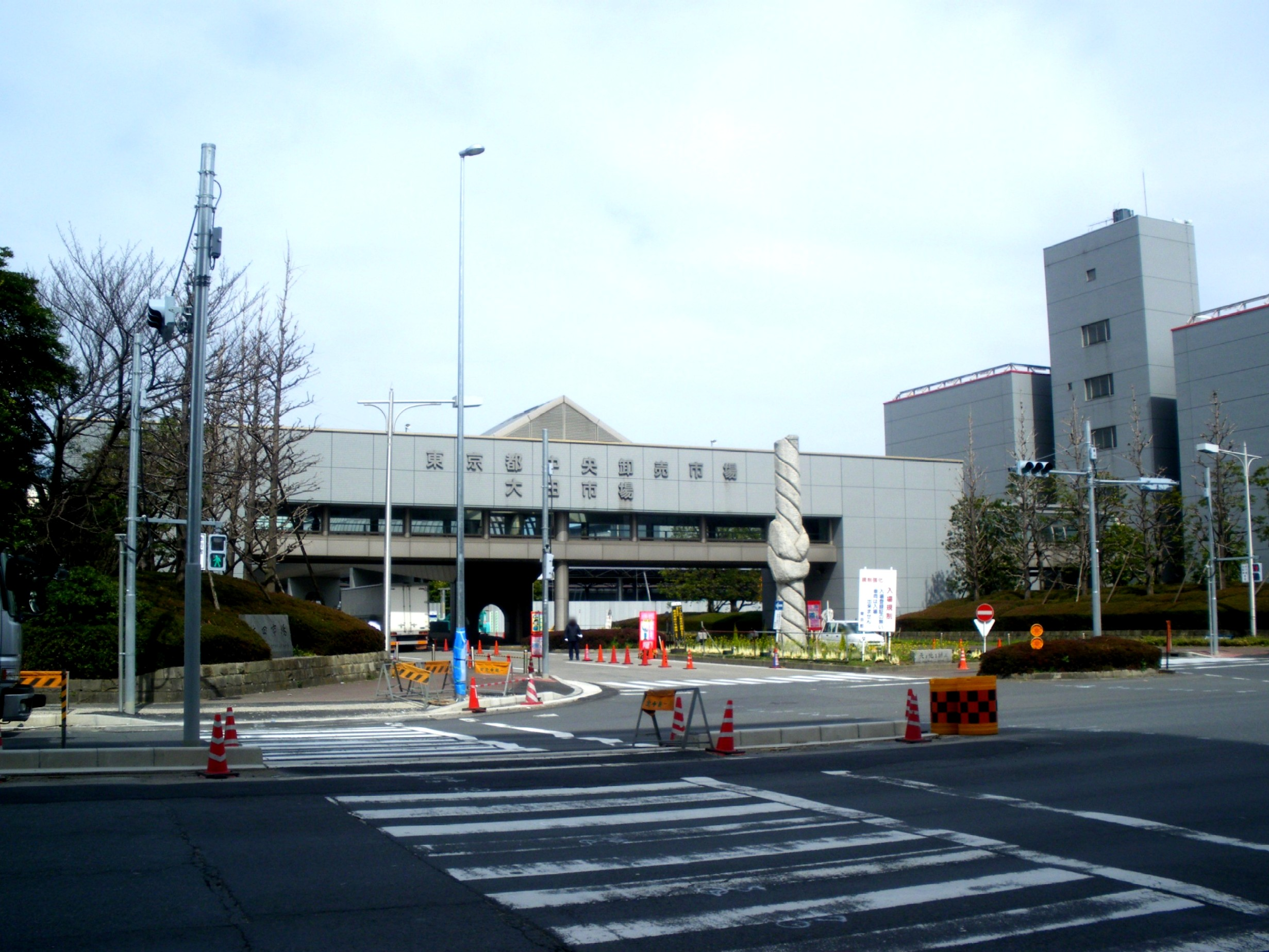 the entrace of Central Wholesale Market Ota Market.